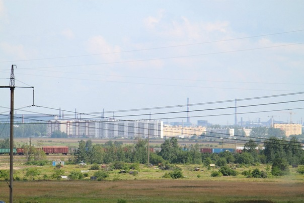 village near St.Petersburg. Russia